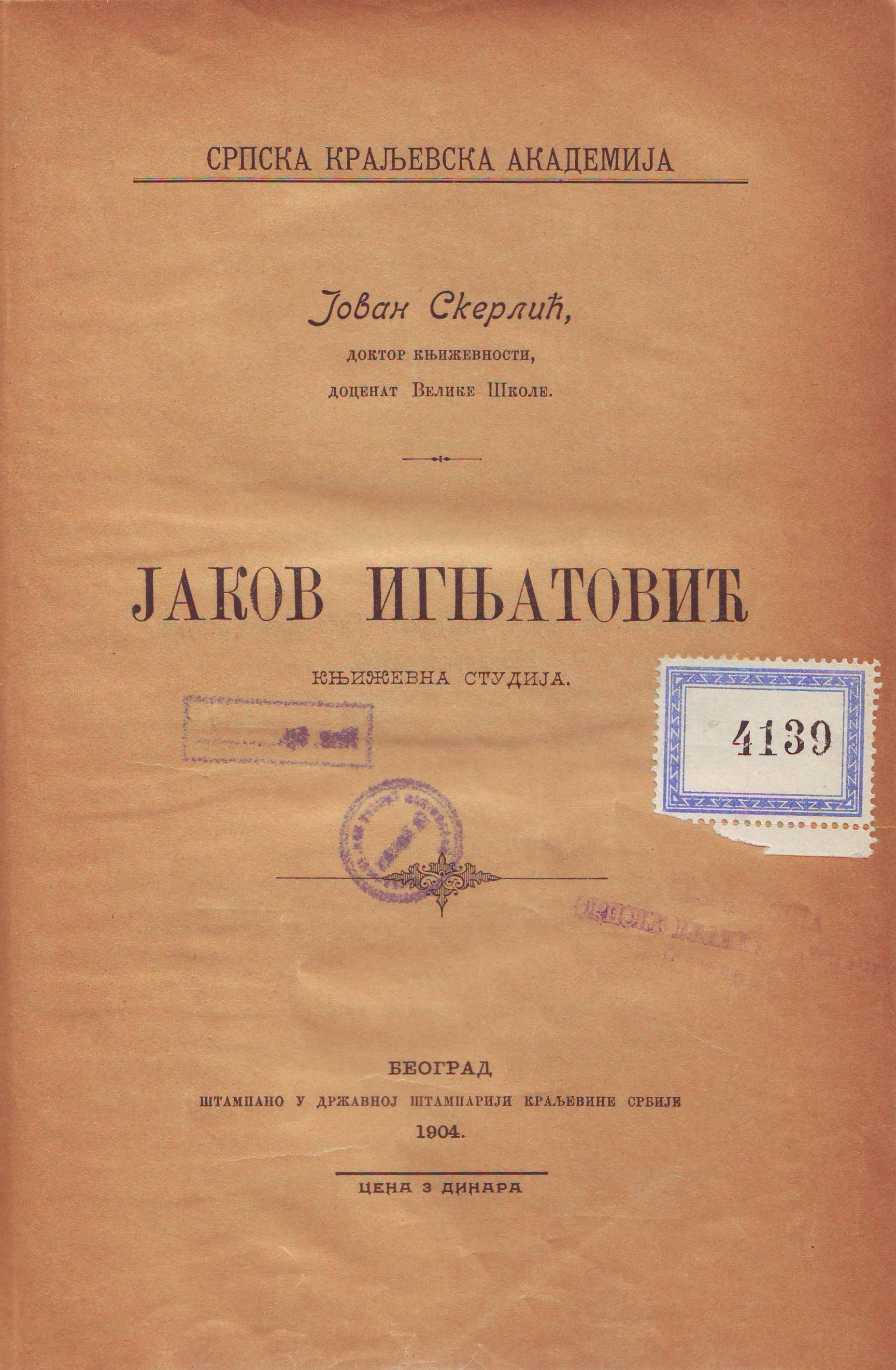 Cover of Jakov Ignjatović književna studija (1904) by Jovan Skerlić. Srpski (latinica): Naslovna strana knjige Jakov Ignjatović književna studija (1904) Jovana Skerlića.